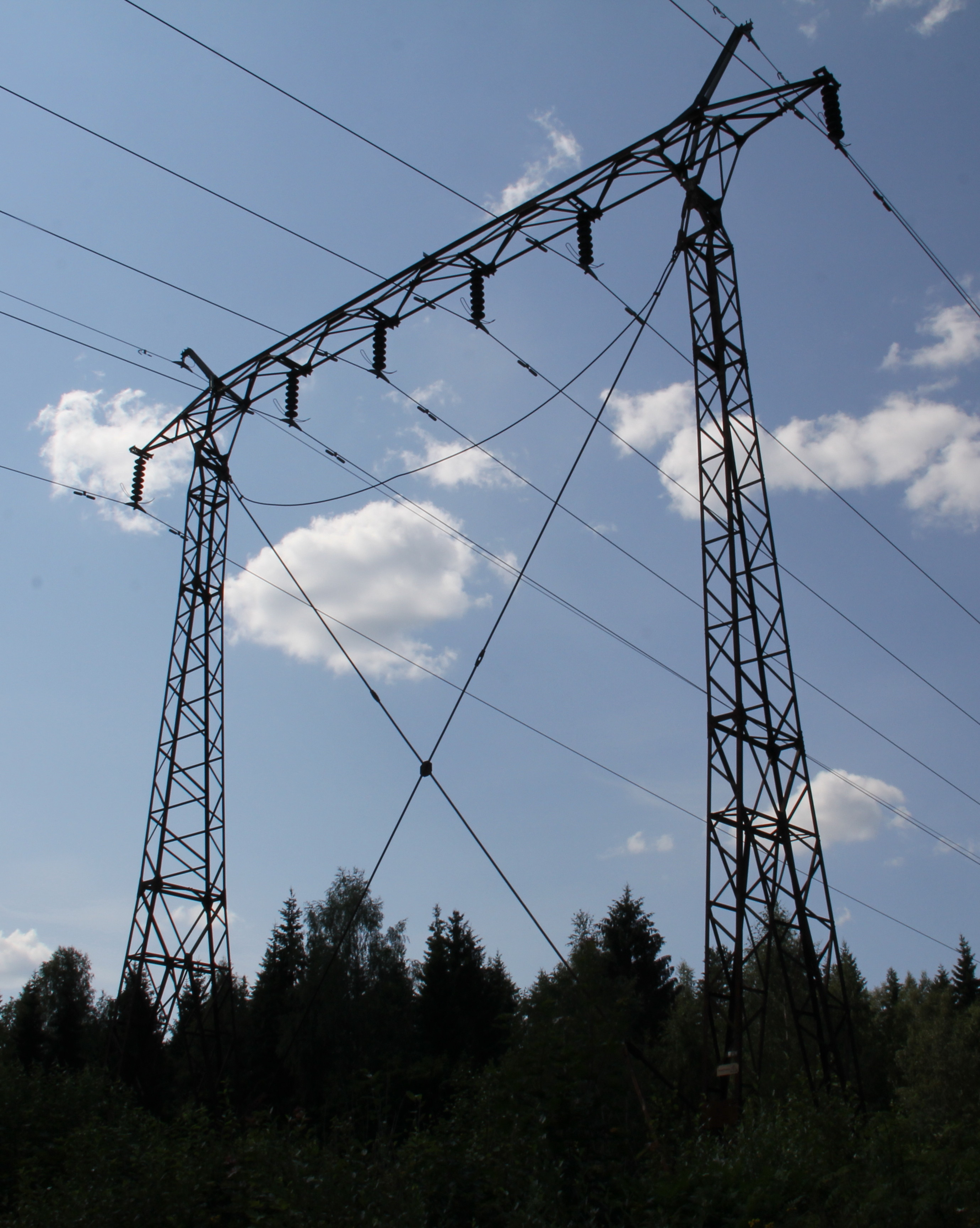 Iron Lady, Vojakkala, Loppi, Finland. - Iron Lady was the name of the first 110 kV power line pylon in Finland, and the power line got the same name. Iron Lady power line was built in 1920s and will be replaced in the 2010s.